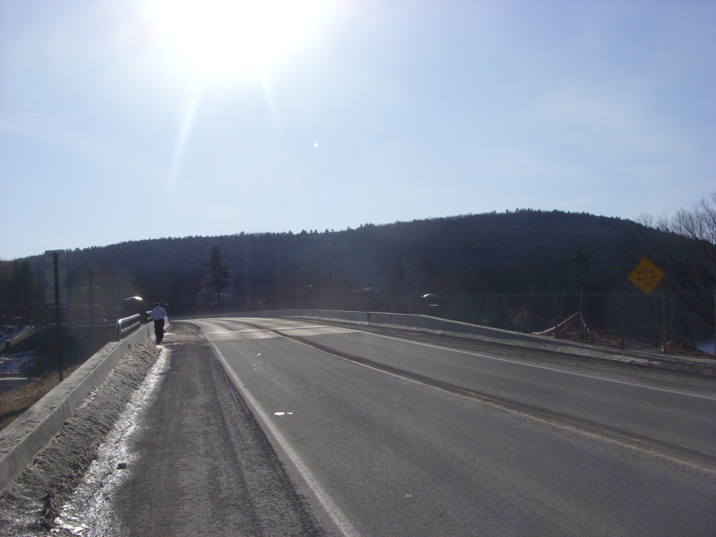 A view of the fifth span of the Barryville-Shohola Bridge.